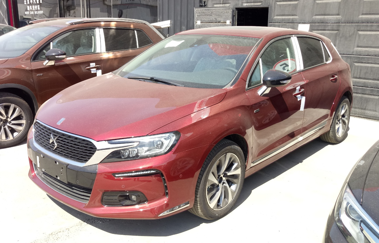 DS 4S photographed in Beijing, China.